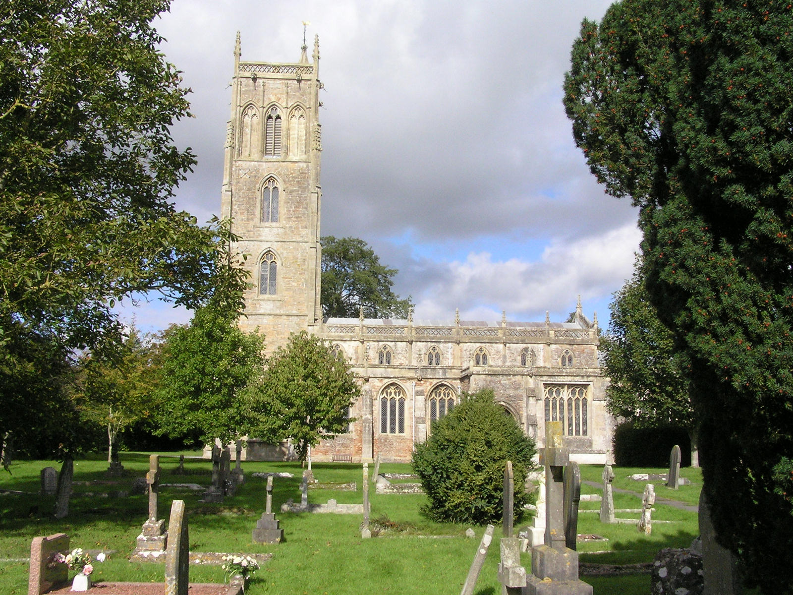 St Andrew's parish church, Cheddar, Somerset, seen from the south